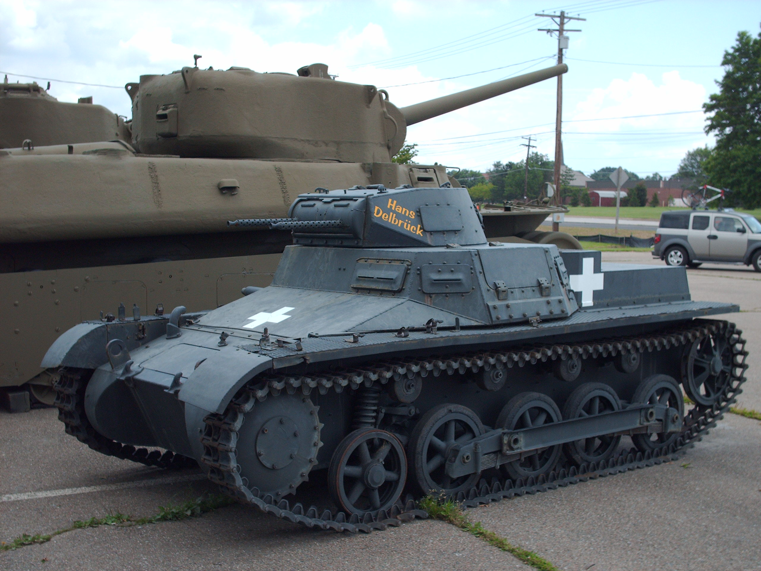 A close picture of the Panzerkampfwagen I (Panzer I) that is located at the US Army Ordnance Museum at the Aberdeen Proving Grounds in Maryland.